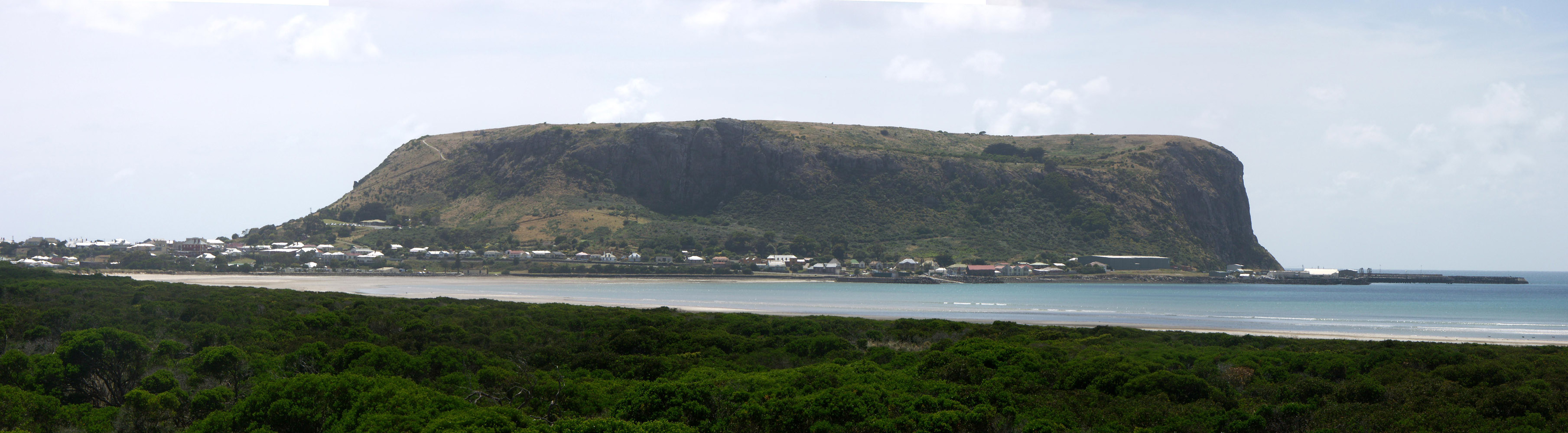 The Nut, a volcanic plug near the town of Stanley - Tasmania - Australia